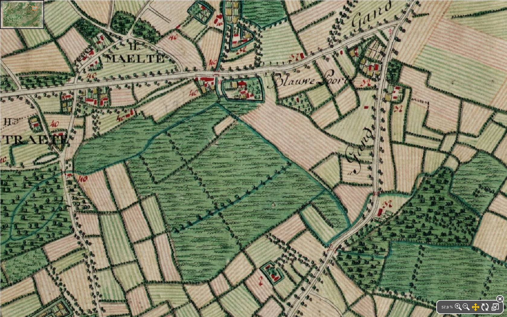 Maaltepark,_Ghent,_Belgium.jpg